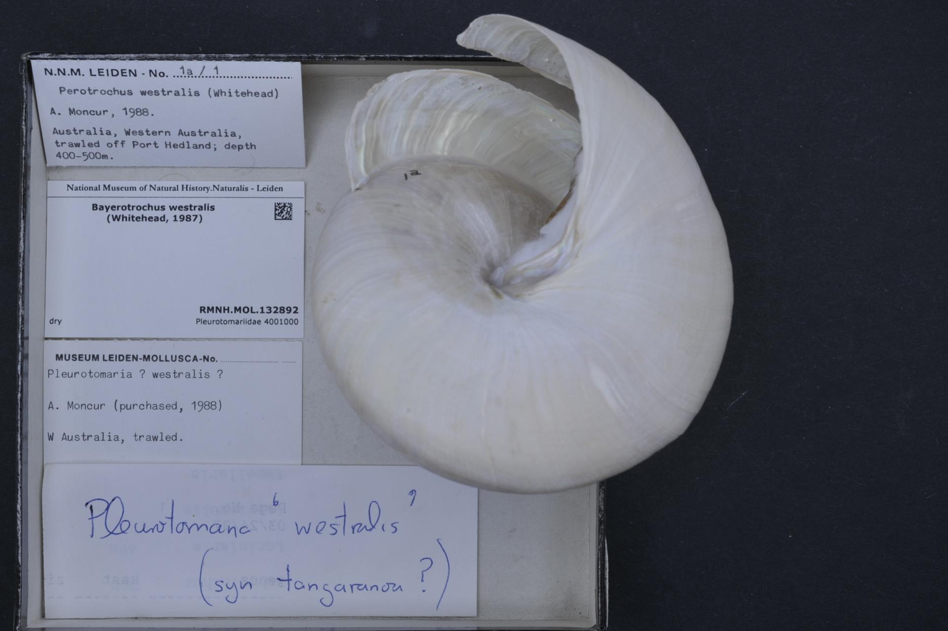 Bayerotrochus westralis (Whitehead, 1987) or Pleutomaria westralis?